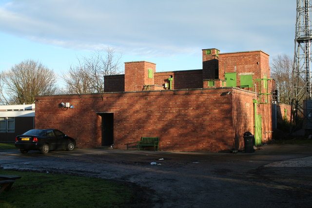 Cold War Memories The former 17 Group Headquarters of The Royal Observer Corps. A semi protected site to monitor radio active fallout and aircraft movements. Now a recording facility.